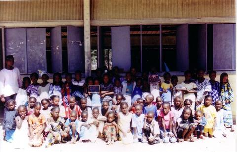 The class room of the school of Agnam-Goly, Senegal